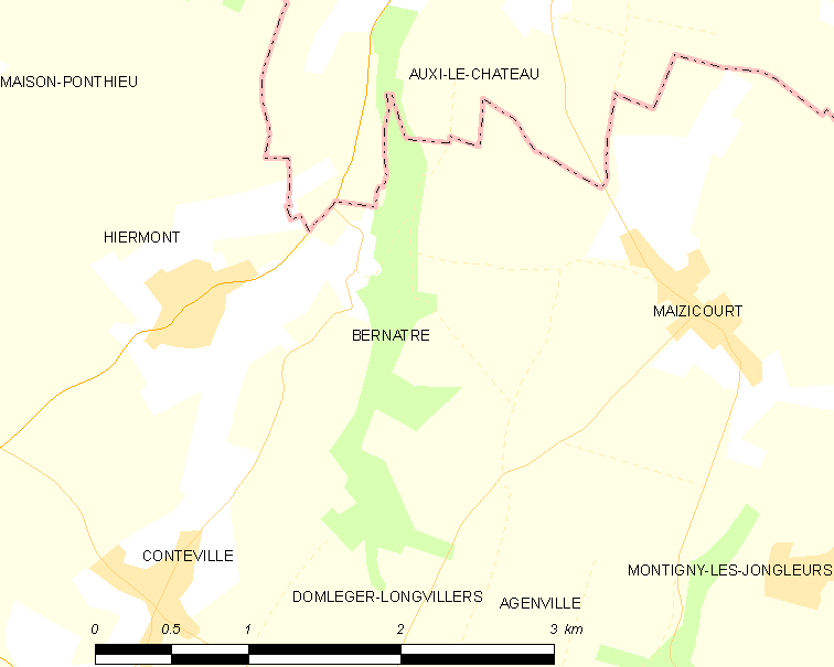 Map of French municipality Bernâtre